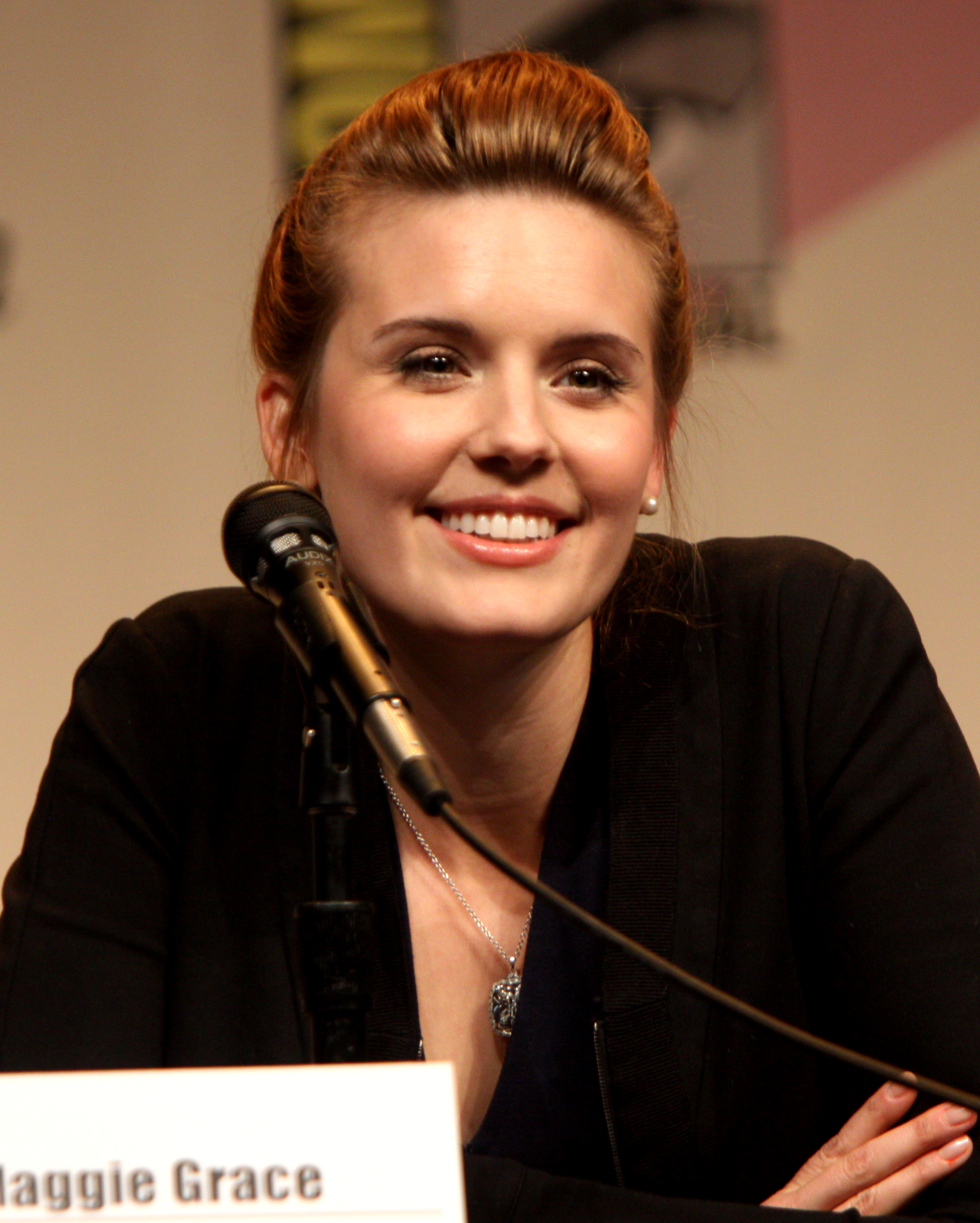 Maggie Grace speaking at Wondercon 2012 in Anaheim, California on March 17, 2012.